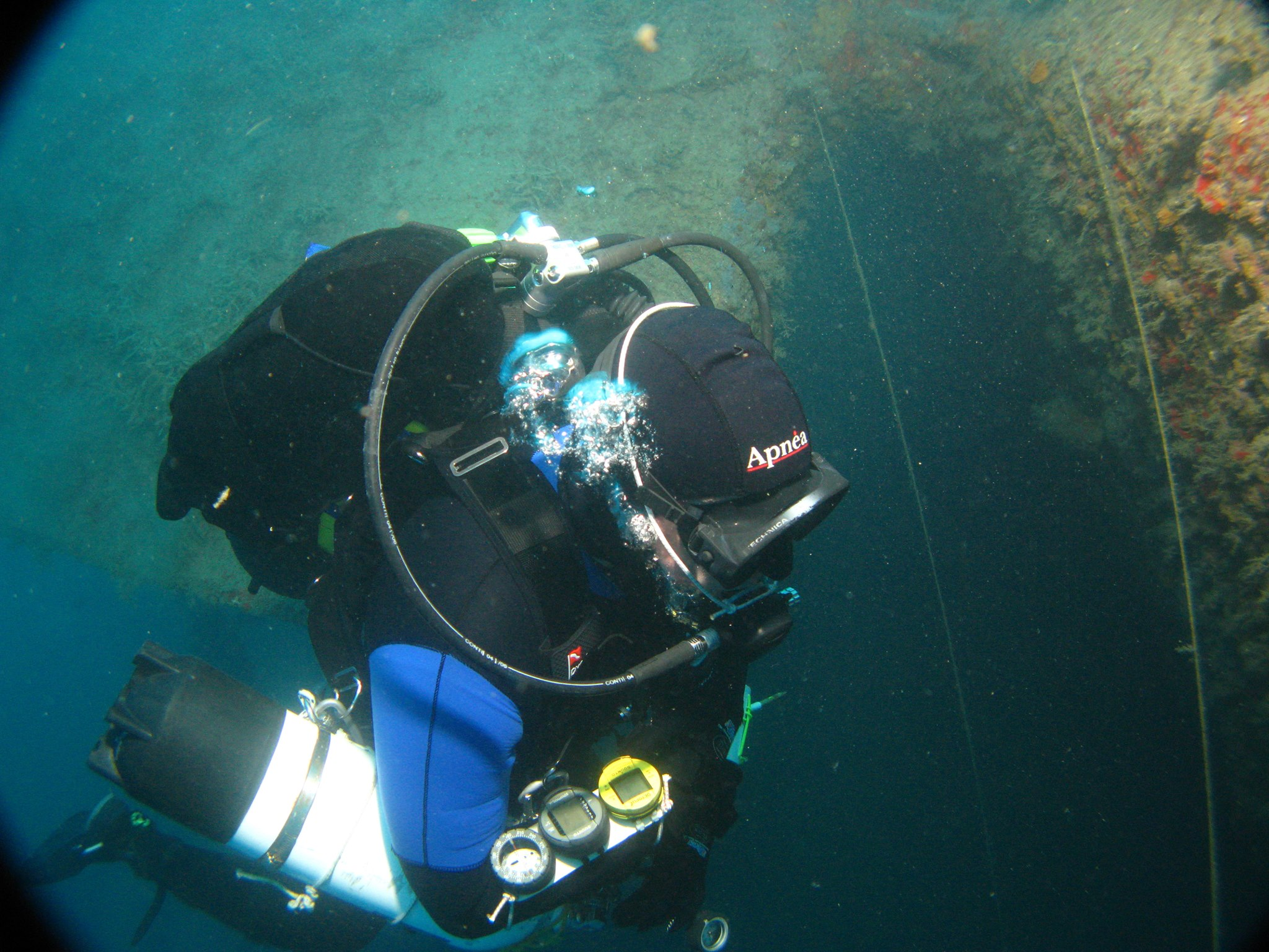 Greek professional diver Aristotelis Zervoudis at the SS ORIA wreck